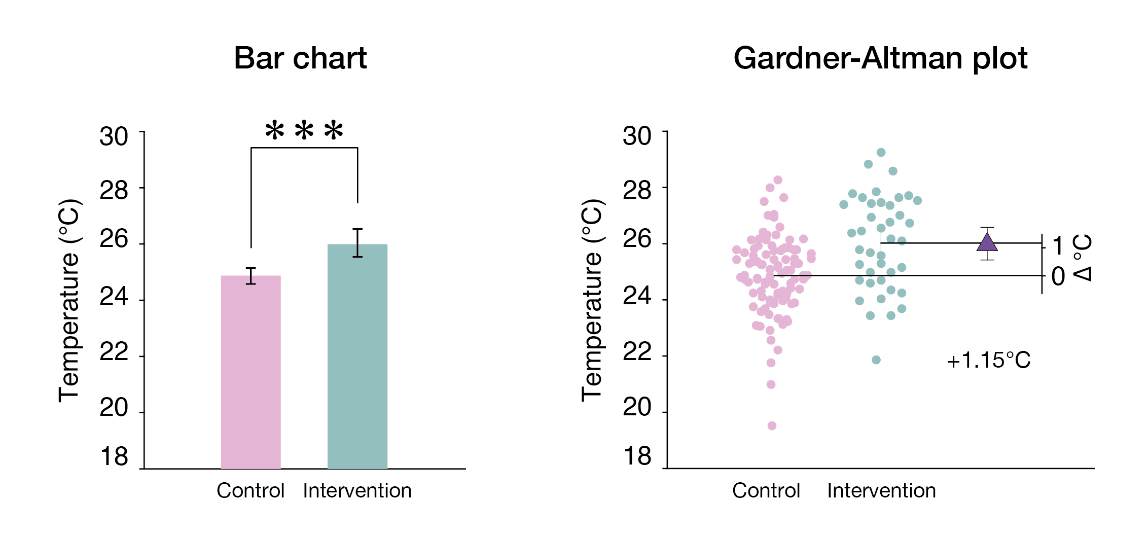 Comparison between the conventional bar chart, a significance-testing data graphic, and the Gardner-Altman plot, an estimation statistics method that graphically examines all data points, and the mean difference with its confidence interval.